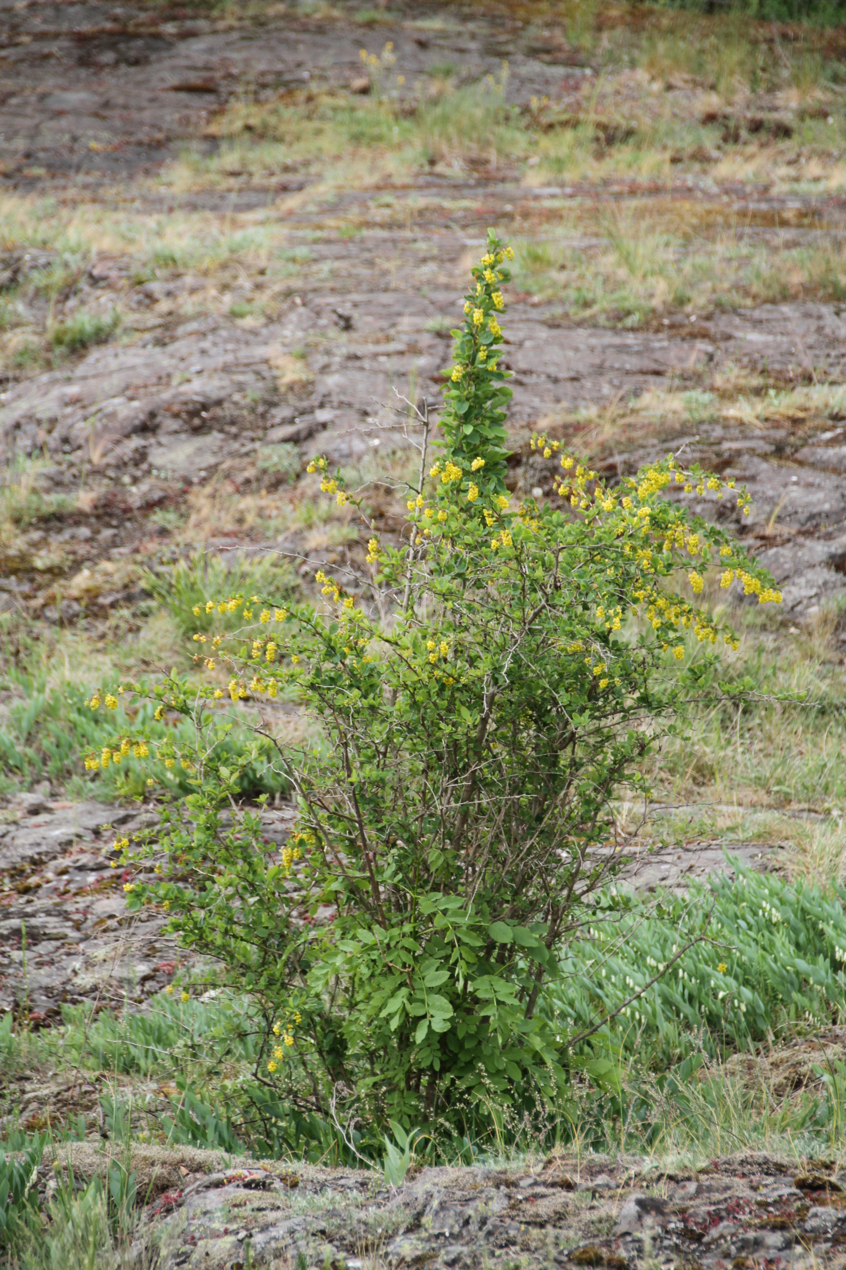 Wild berberis at Langaara in the Oslo fjord.